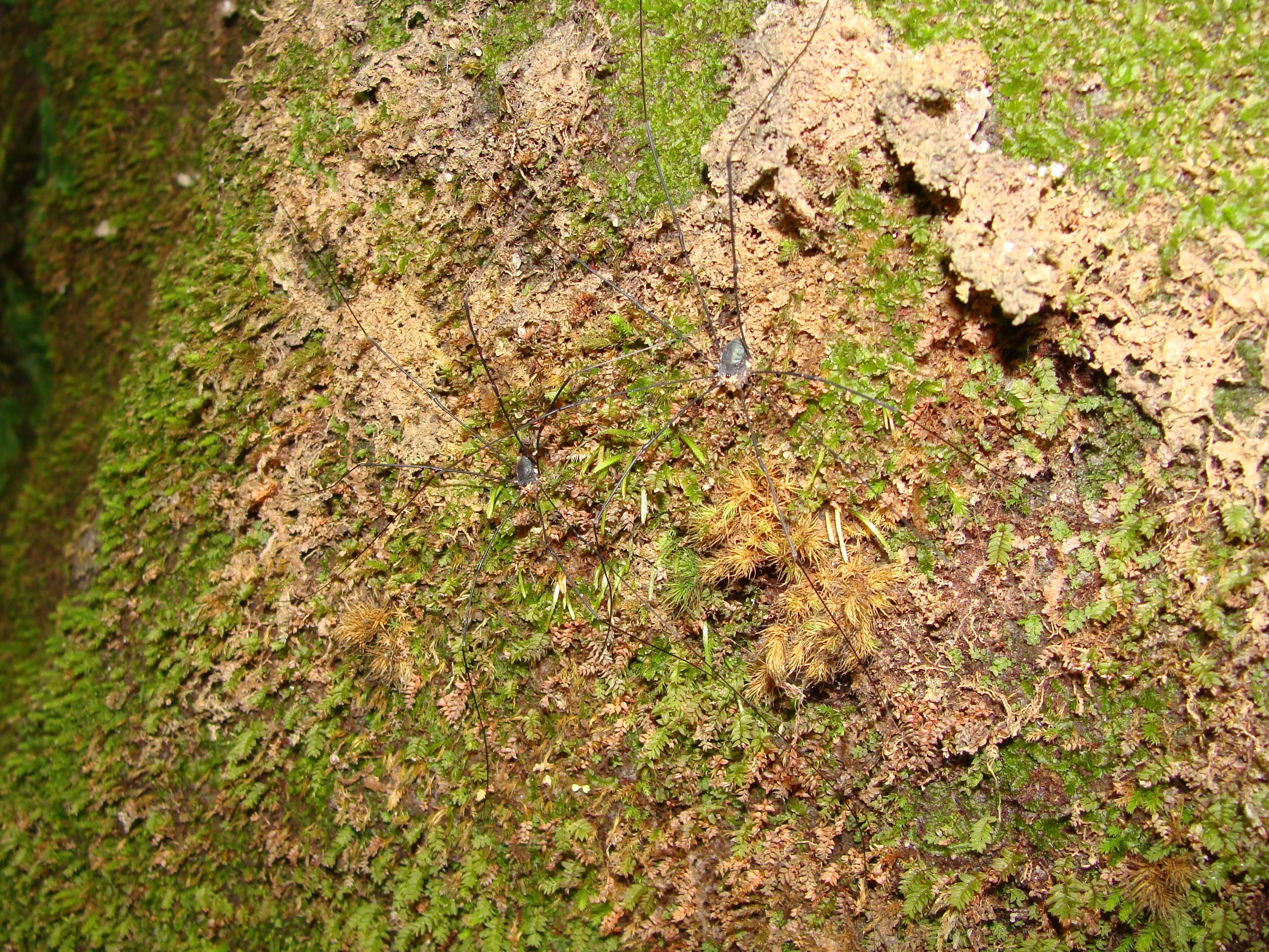 Harvestman Nelima genufusca (Sclerosomatidae: Leiobuninae). Photo taken in Hakkōda Mountains (Aomori Prefecture, Japan).